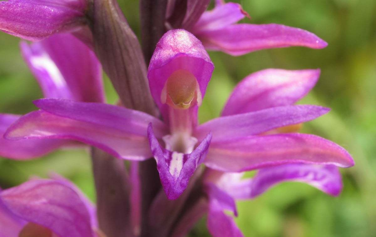 Limodorum abortivum var. rubrum